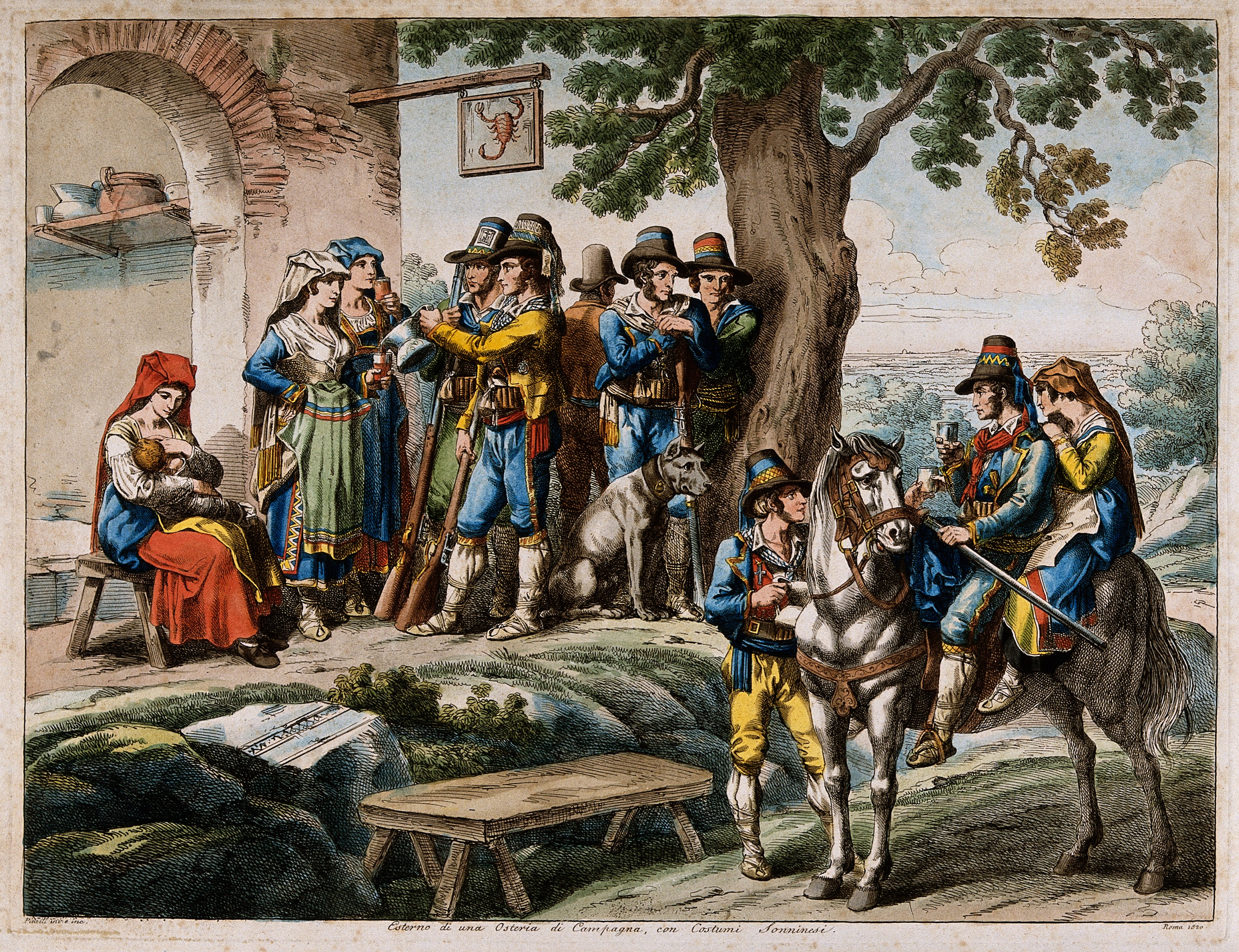 Men and women in local costume drink outside an Italian country inn; in the foreground are a couple on horseback. Coloured etching by B. Pinelli, 1820, after himself. Iconographic Collections Keywords: Bartolomeo Pinelli